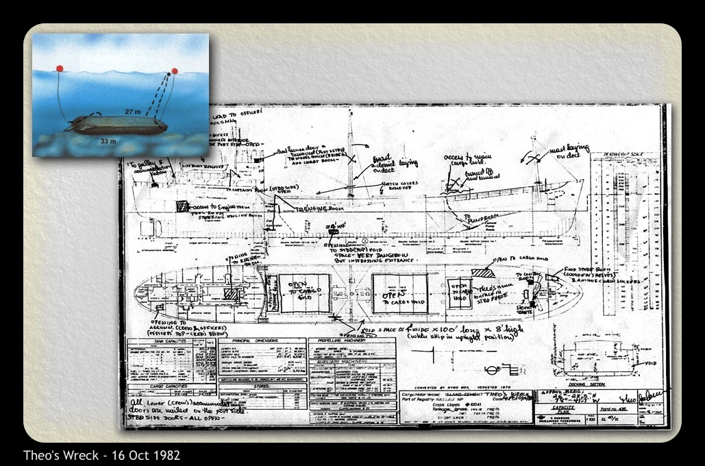 MVIC General Arrangement Plan